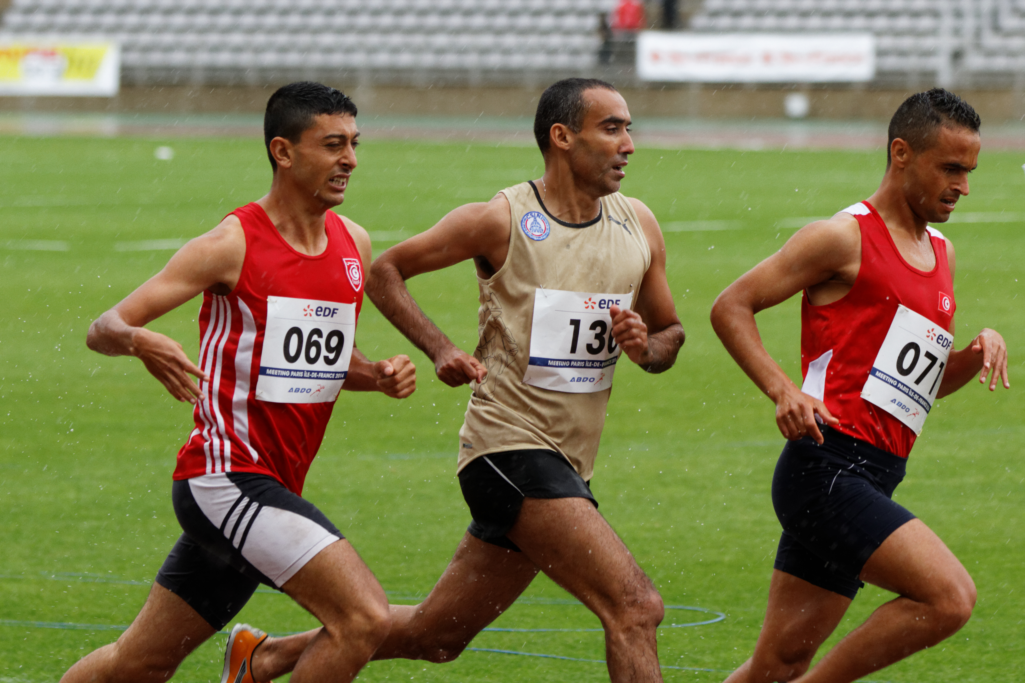 Paris Athletics Paralympic Meeting, June 4th, 2014, Charlety stadium.